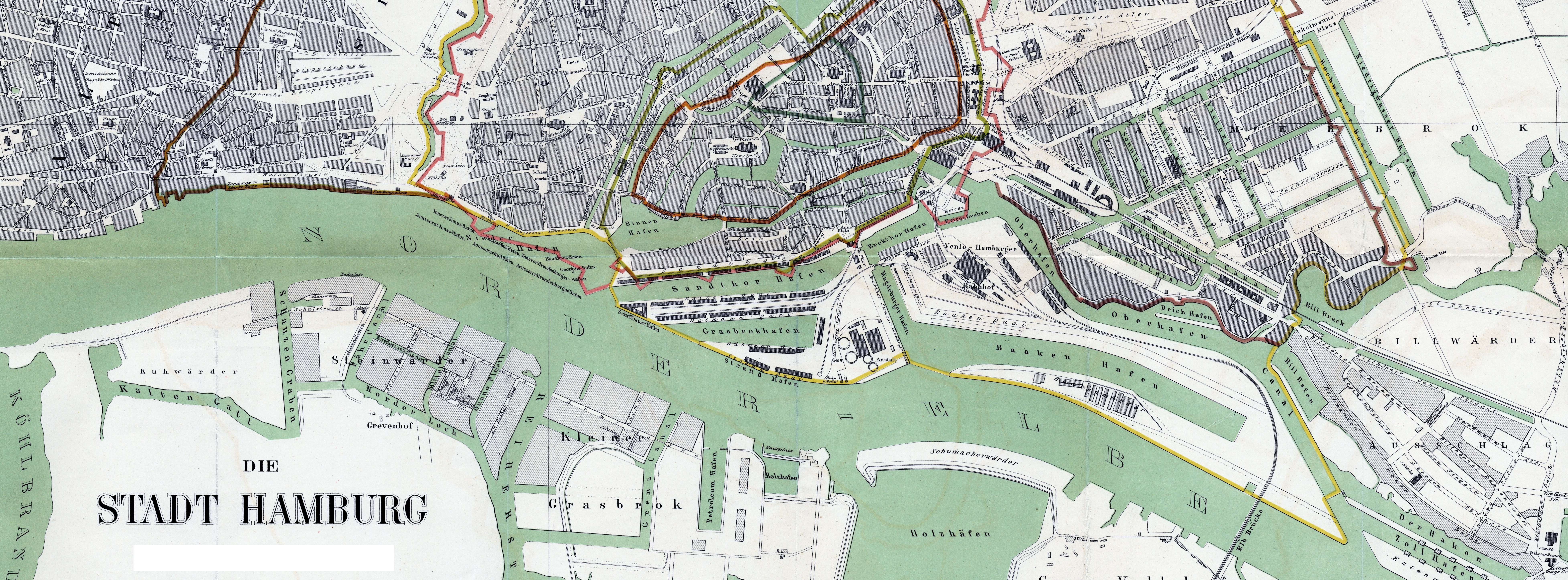 Harbour of Hamburg 1880; cut from City map of Hamburg from 1880